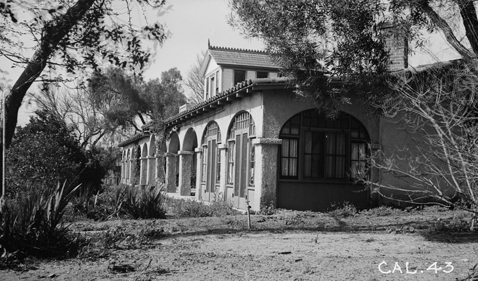 View from southeast of arcade — of 1850s Rancho Guajome Adobe (residence) at Rancho Guajome in Vista, San Diego County, California. A National Historic Landmark, Historic house museum, and on the National Register of Historic Places in Southern California. Image (1936) courtesy of the federal HABS—Historic American Buildings Survey of California.